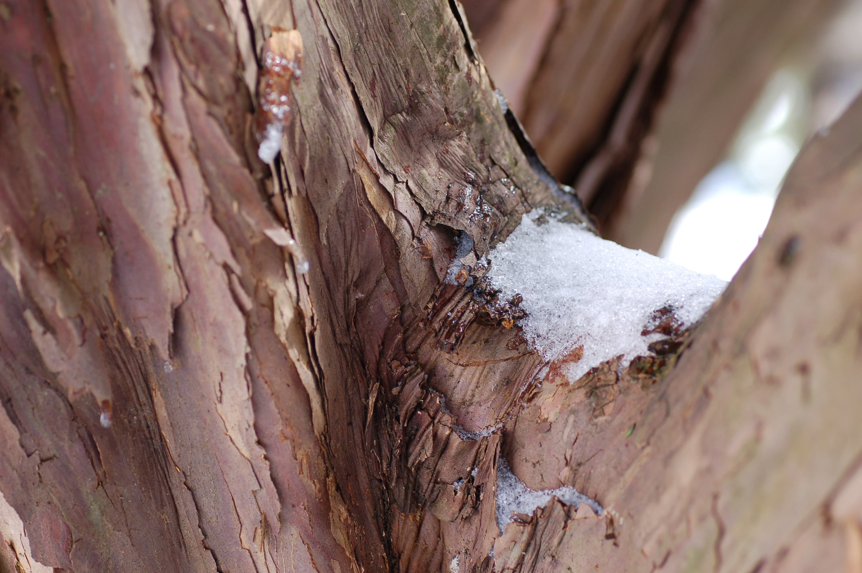 Photograph of the bark of the Japanese Yewen (Taxus cuspidata en ). Photo taken at the Tyler Arboretum where it was identified.